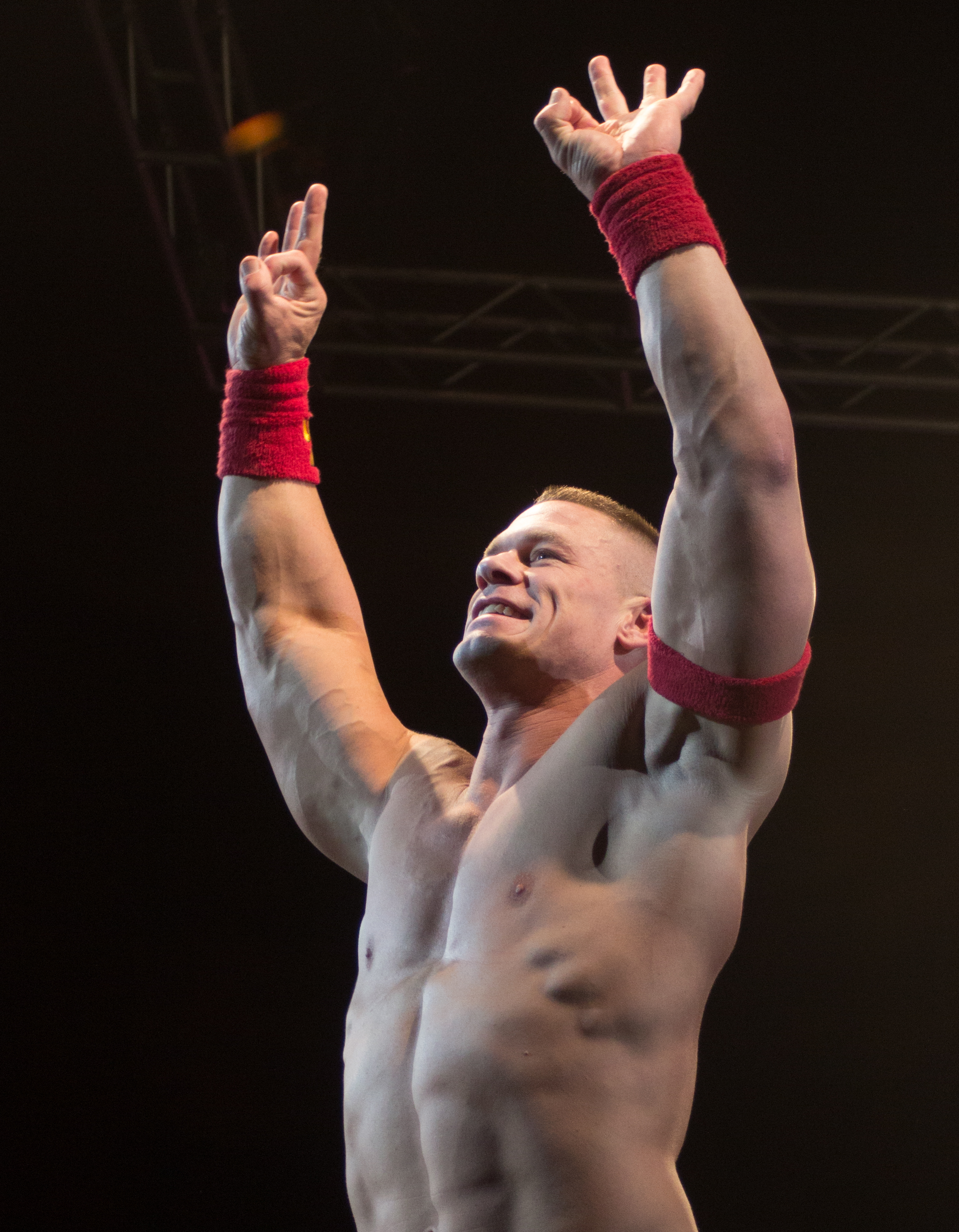 WWE House Show - Garrett Coliseum - 1/10/15